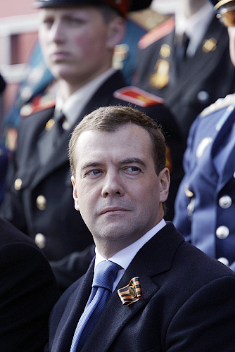 RED SQUARE, MOSCOW. At the military parade marking the sixty-third anniversary of Victory in the Great Patriotic War.